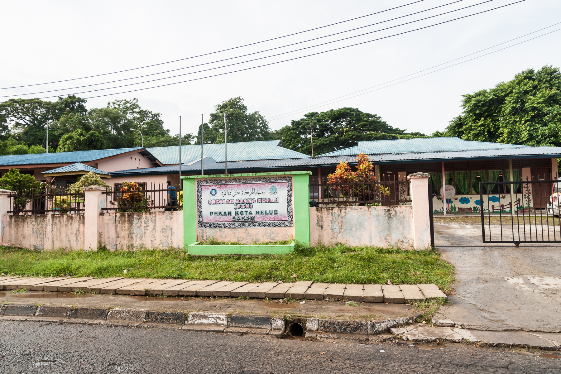 Kota Belud, Sabah: Religious School (Sekolah Agama)